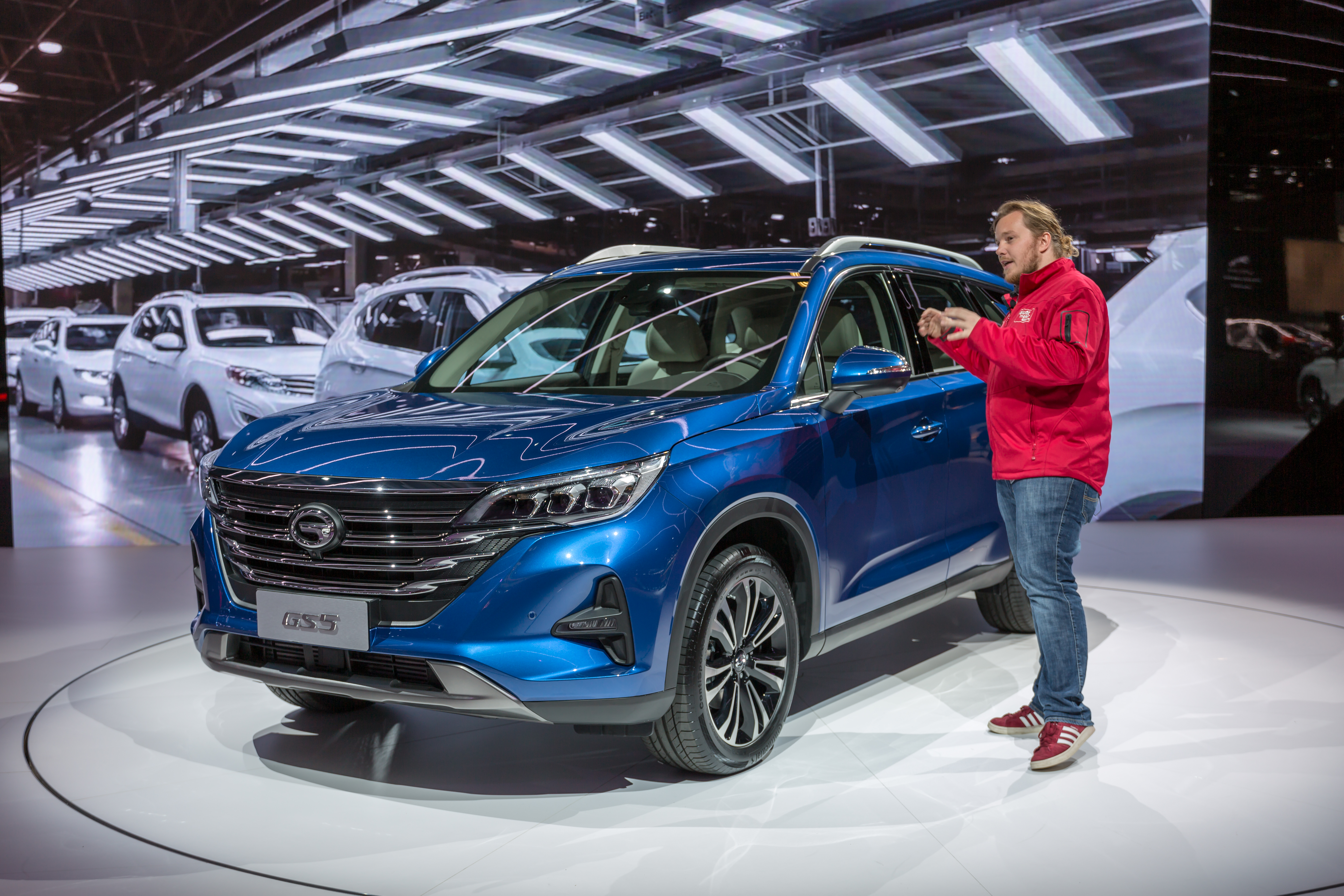 Paris Motor Show 2018